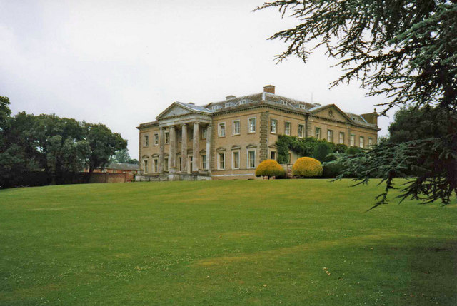 Broadlands, Romsey, Hampshire